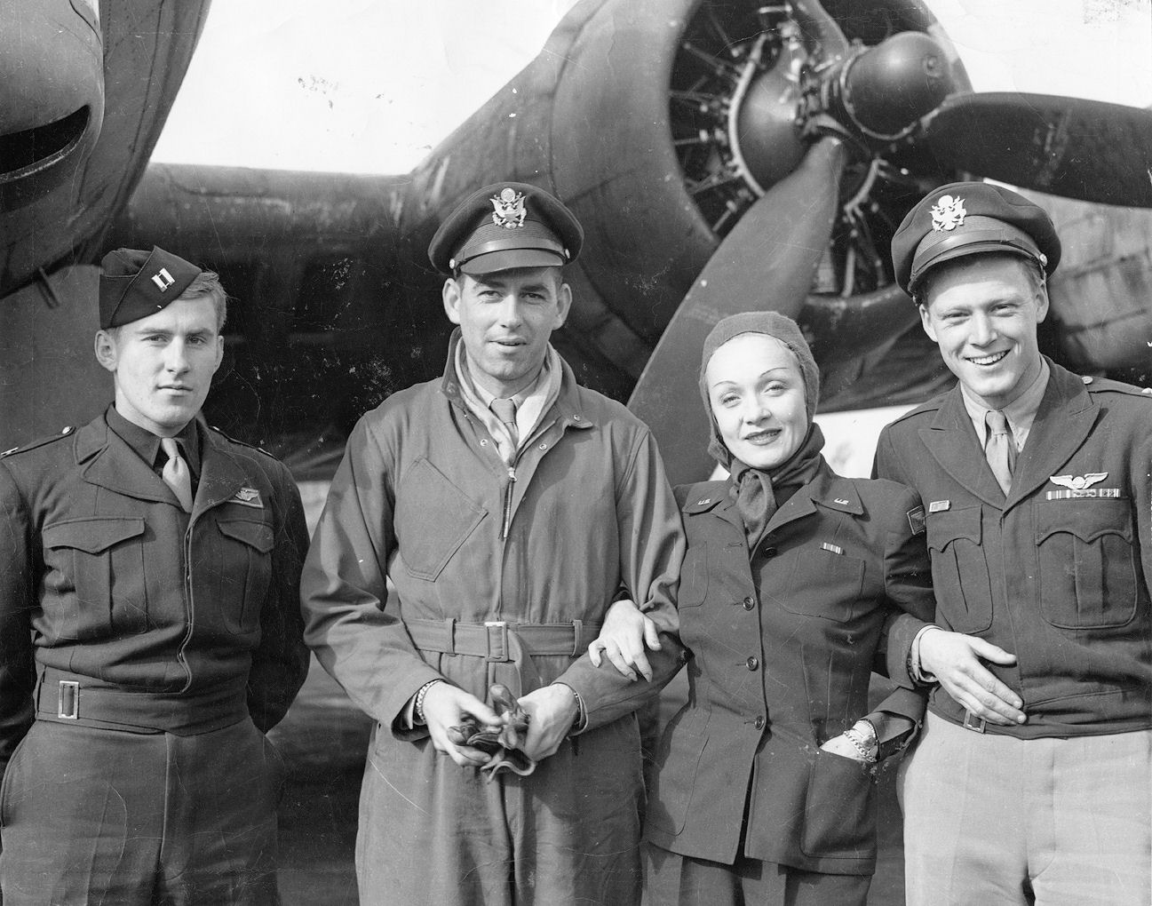 Hollywood actress Marlene Dietrich with airmen of the 401st Bomb Group after a ride in a B-17 Flying Fortress nicknamed "Pakawalup". Printed caption on reverse: 'Marlene Dietrich, long famed for her attractive legs, entertained more than 1,000 officers and enlisted men of the 8th Air Force Base at Hangar no 1 on 29 September 1944, Miss Dietrich and party were picked up from Birmingham in the Boeing B-17 "Pakawalup" piloted by Colonel William T Seawell (2nd left) and Captain Felix Kalinski (left) with Lawrence W Pfeiffer as navigator. US Air Force Photo.